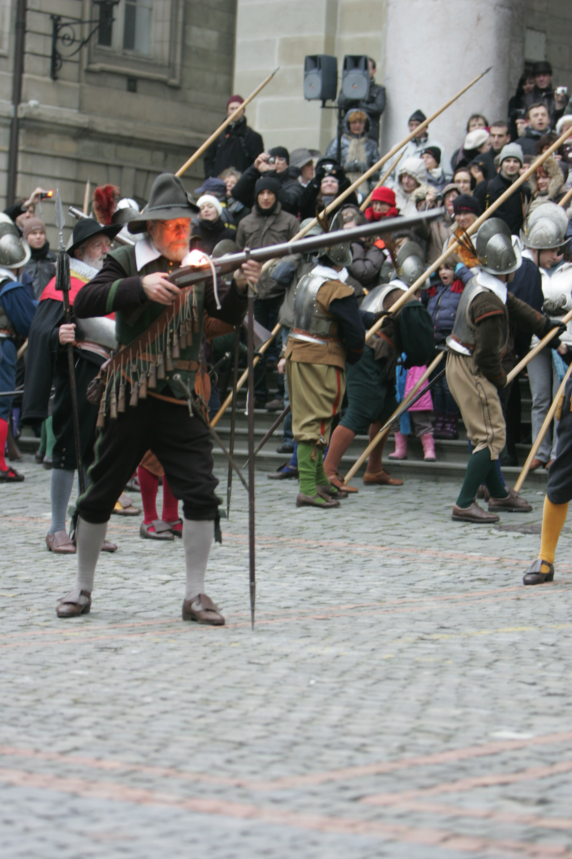 Arquebus firing during the Geneva Escalade of 2009